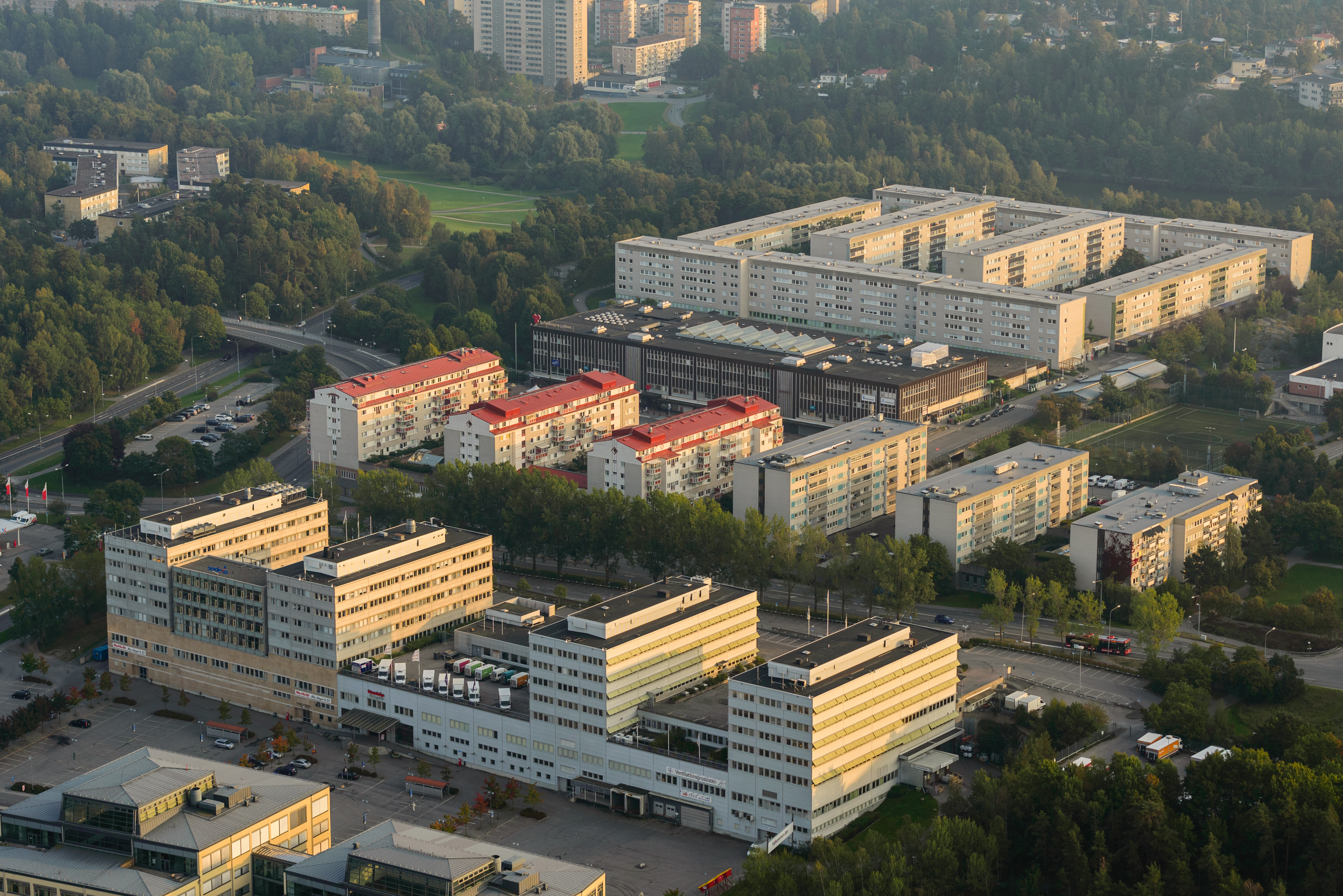 Hallonbergen.